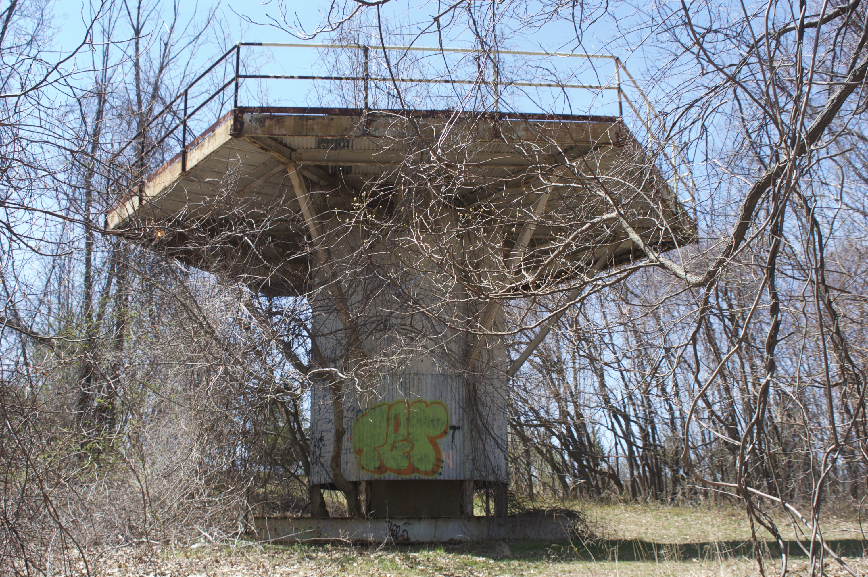 Riker Hill Complex Radar Tower, part of the control area for a former Project Nike missile base, Livingston, New Jersey. The base was built in 1954, deactivated 1974.